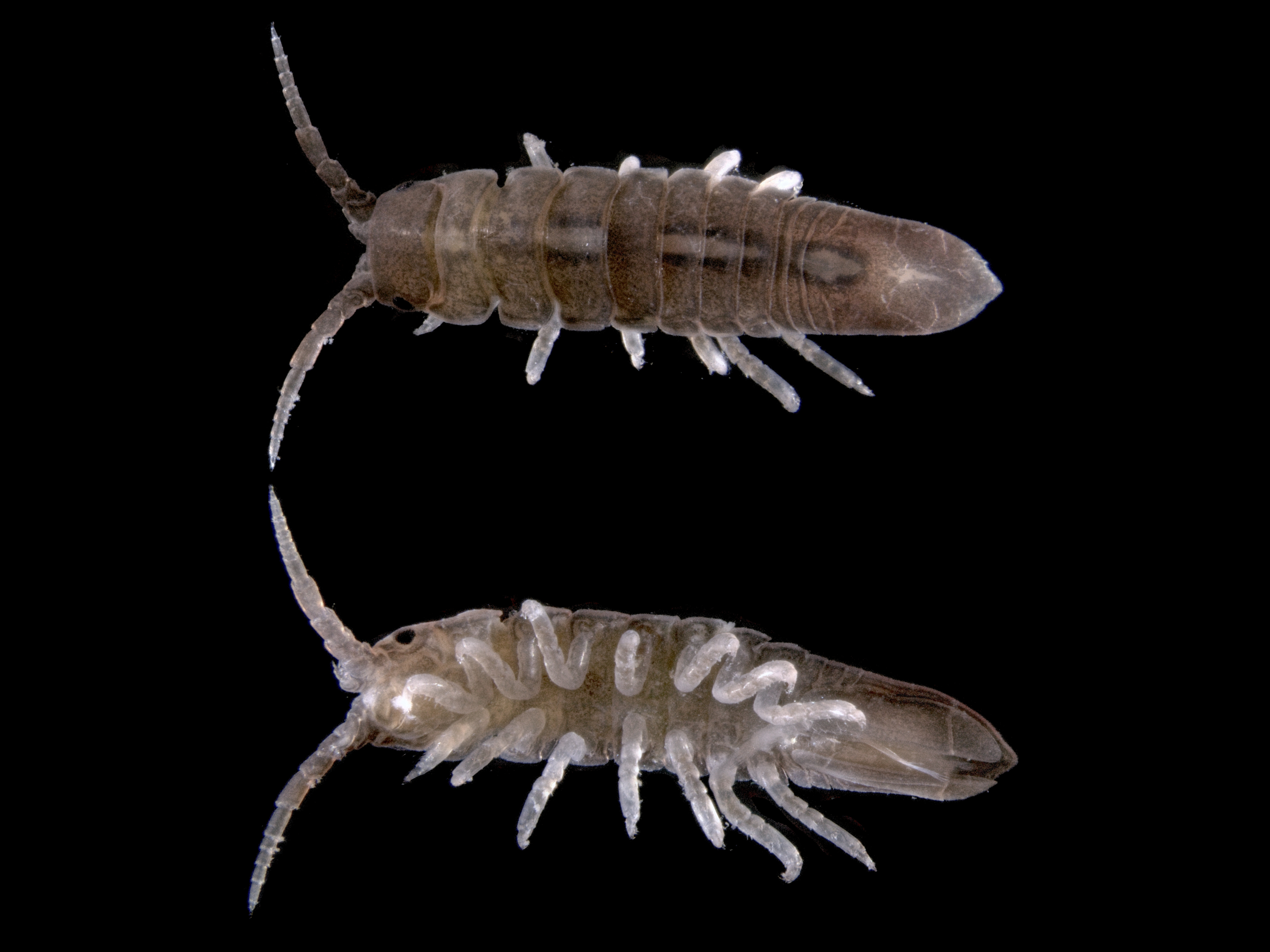 Dorsal and ventral view of a marine isopod. Image taken with a Leica DFC 490 camera mounted on a Leica M205C binocular microscope. This is an intertidal species. Collected in 2011 at the port of Zeebrugge, Belgium at 51°21′0.9″N 3°13′12.09″E / 51.35025°N 3.220025°E.Length = ~11 mmFocus stacking of 36(dorsal) and 40(ventral) pictures.